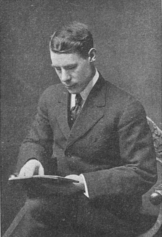 Photograph of American zoologist Malcolm Playfair Anderson